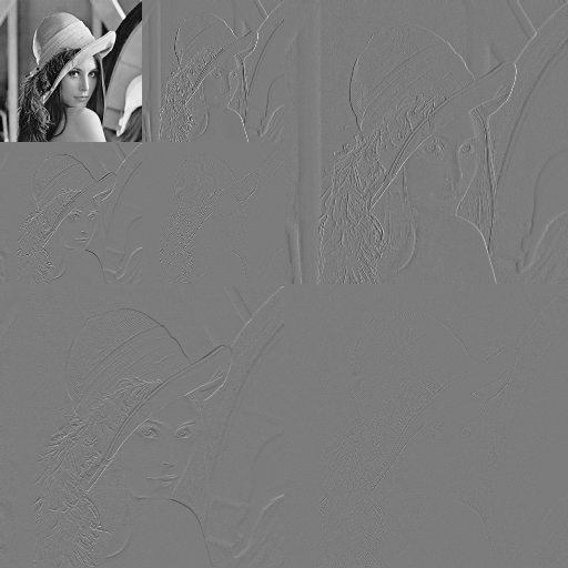 Two iterations of the Haar wavelet decomposition on the Lenna image. The original image is low-pass filtered and downscaled, yielding the approximation image shown in the top left quadrant. It is also high-pass filtered, yielding the detail coefficients matrices in the remaining three quadrants (top right, bottom left and bottom right). The filtering process is repeated one more time on the approximation image.